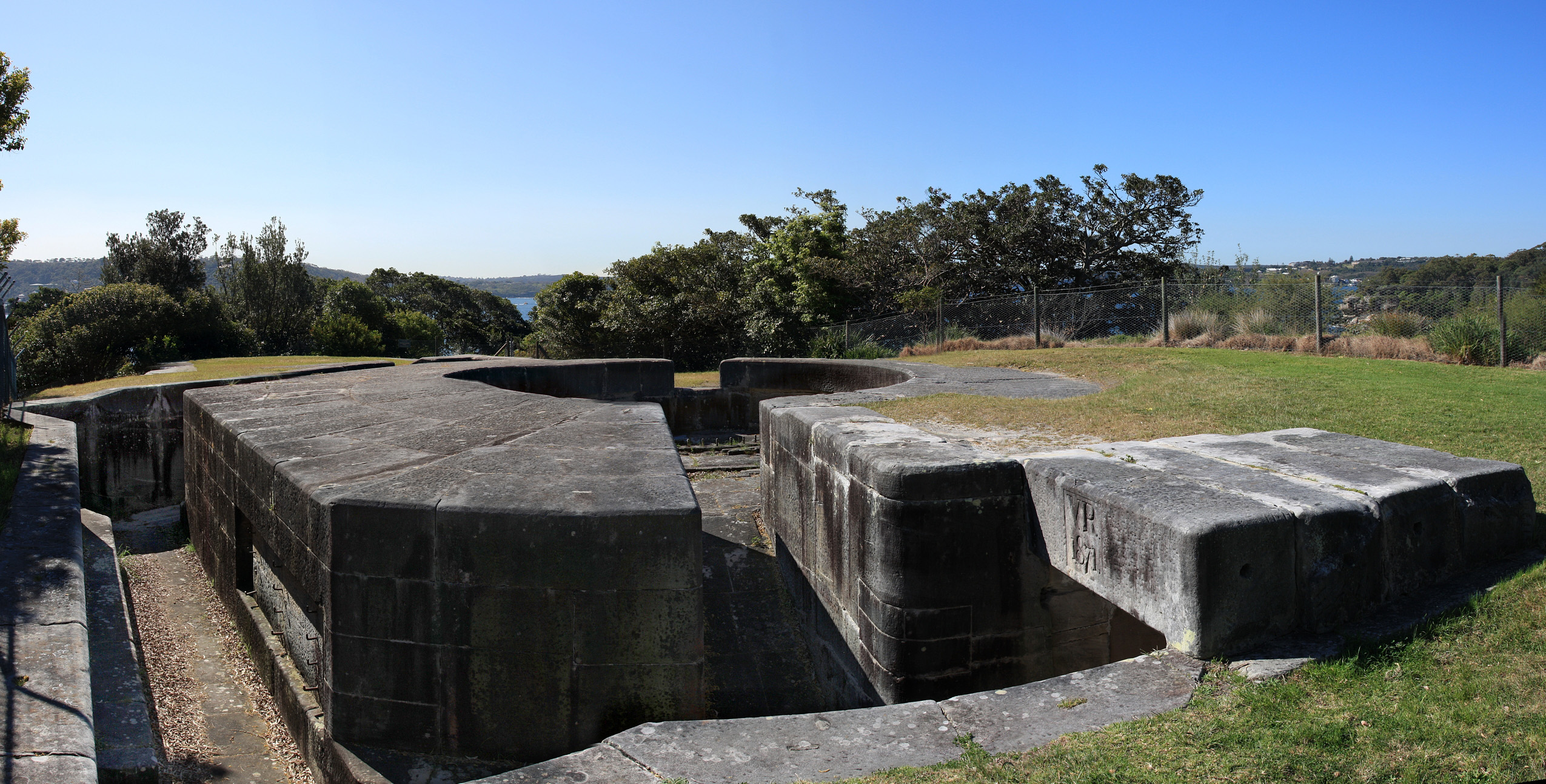 Watsons Bay, New South Wales. The City of Sydney as well as the Sydney Harbour Bridge is in the background on the right with the gap in the foreground